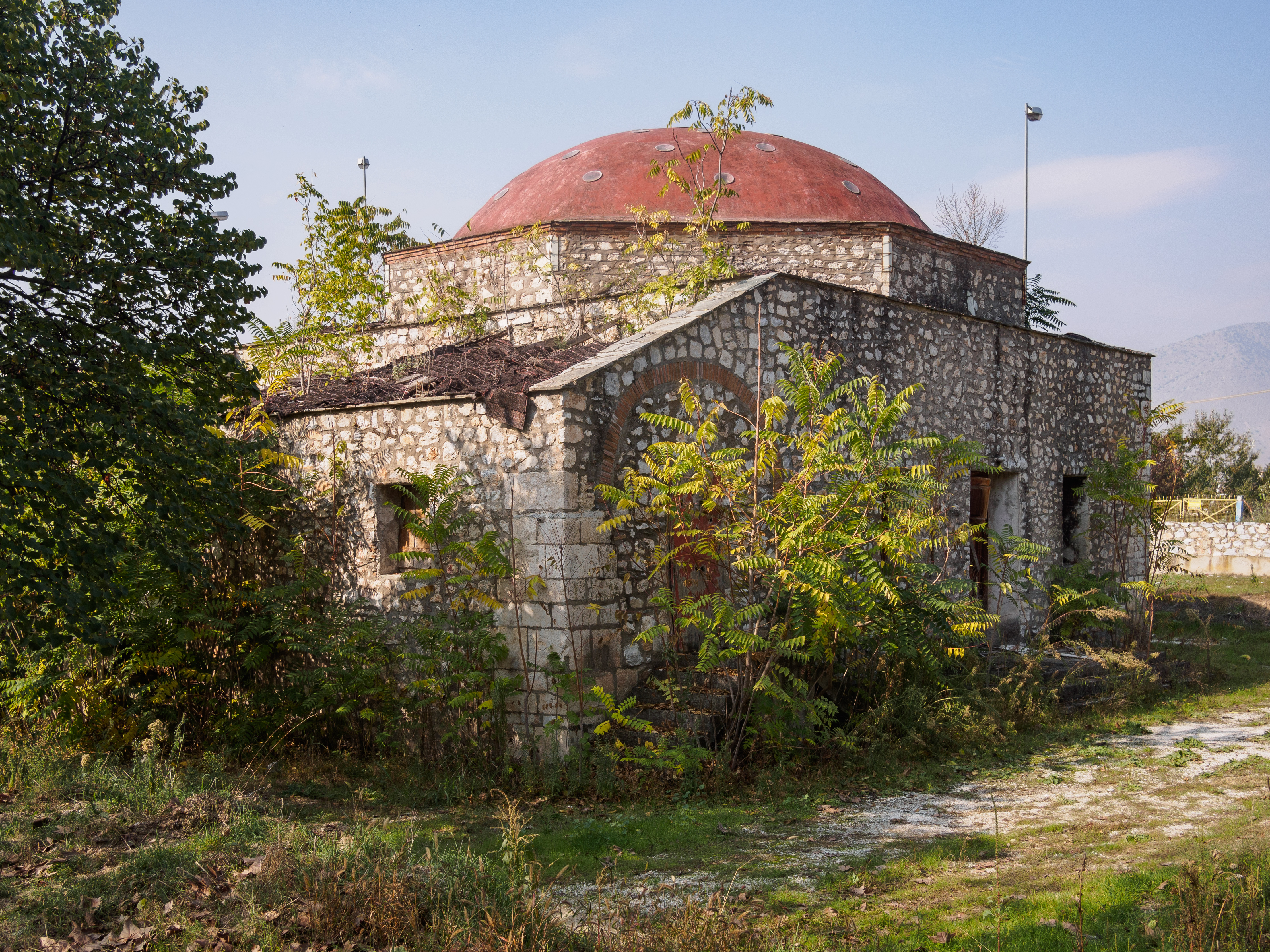 The ottoman hammam of Tyrnavos.